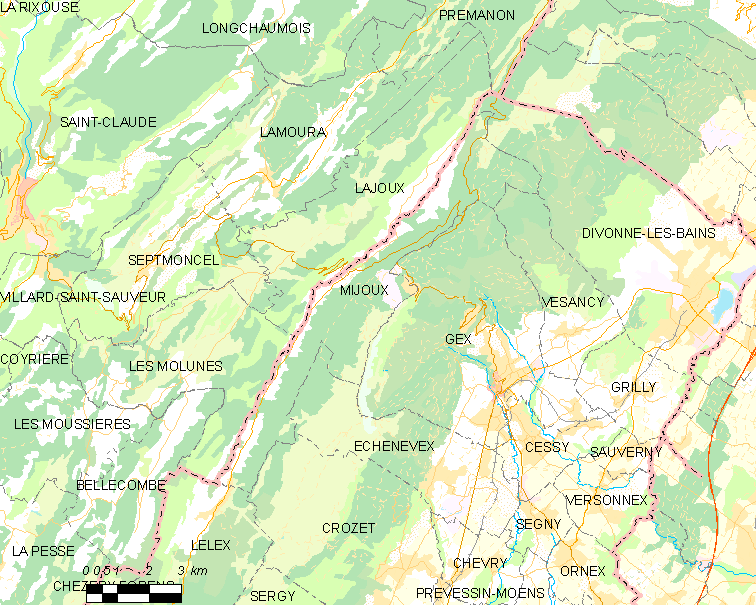 Map of French commune: Mijoux Map commune FR insee code 01247.png